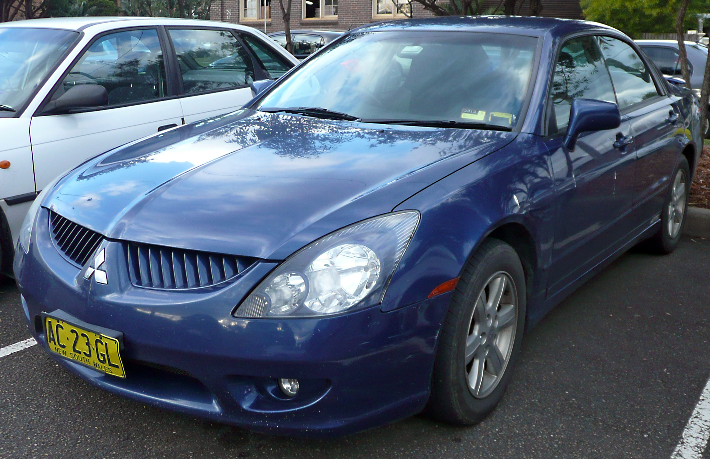 2004 Mitsubishi Magna (TW) VR-X AWD sedan. Photographed in Sutherland, New South Wales, Australia.